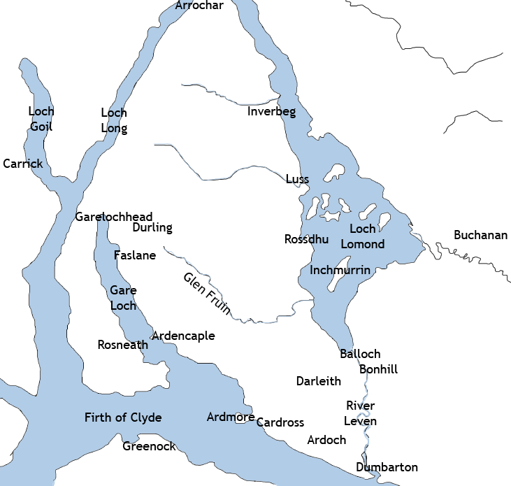 Map of the historial district of Lennox and area of influence of the Clan MacAulay.